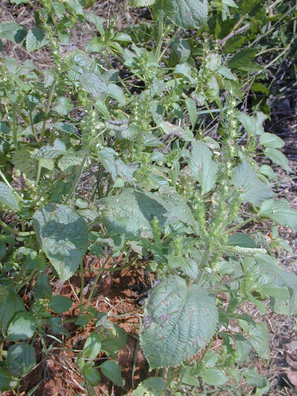 Acalypha ostryifolia, grown plants with inflorescences